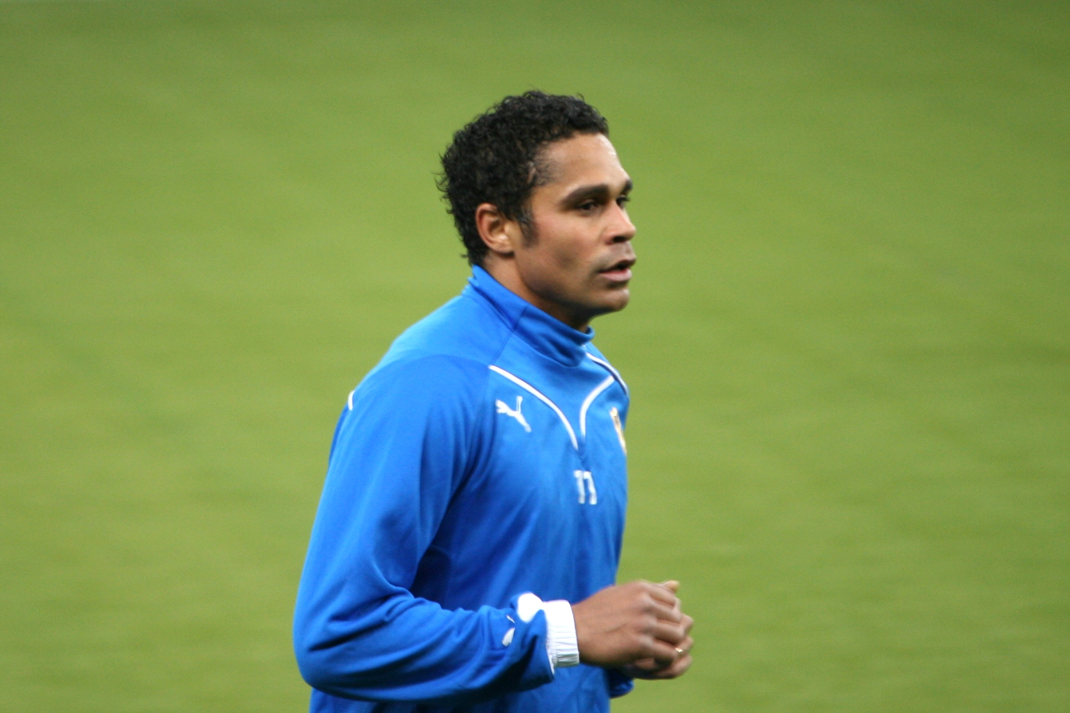 Swedish footballer Daniel Nannskog.